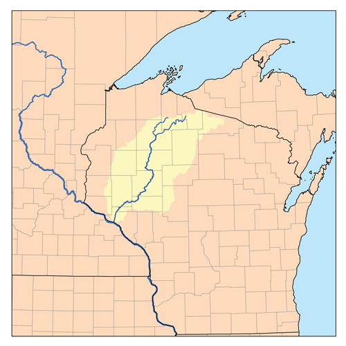 Map of the Chippewa River watershed in Wisconsin. Tributary of the Mississippi River.